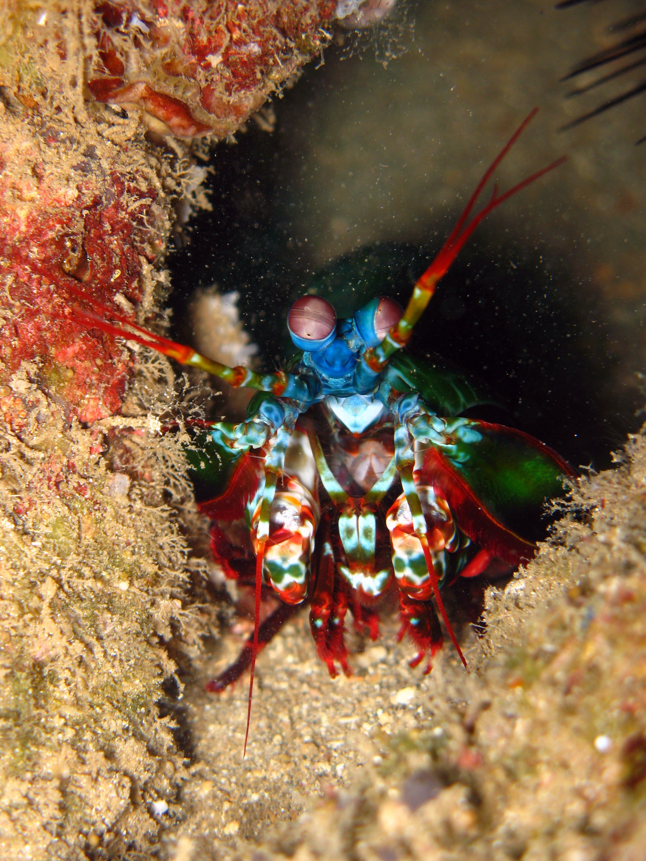 A colorful image of a Stomatopod crustacean, also known as a mantis shrimp, taken in Indonesia, July 2007.